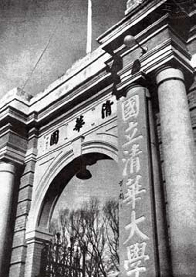 The Gate of National Tsing Hua University in 1928.